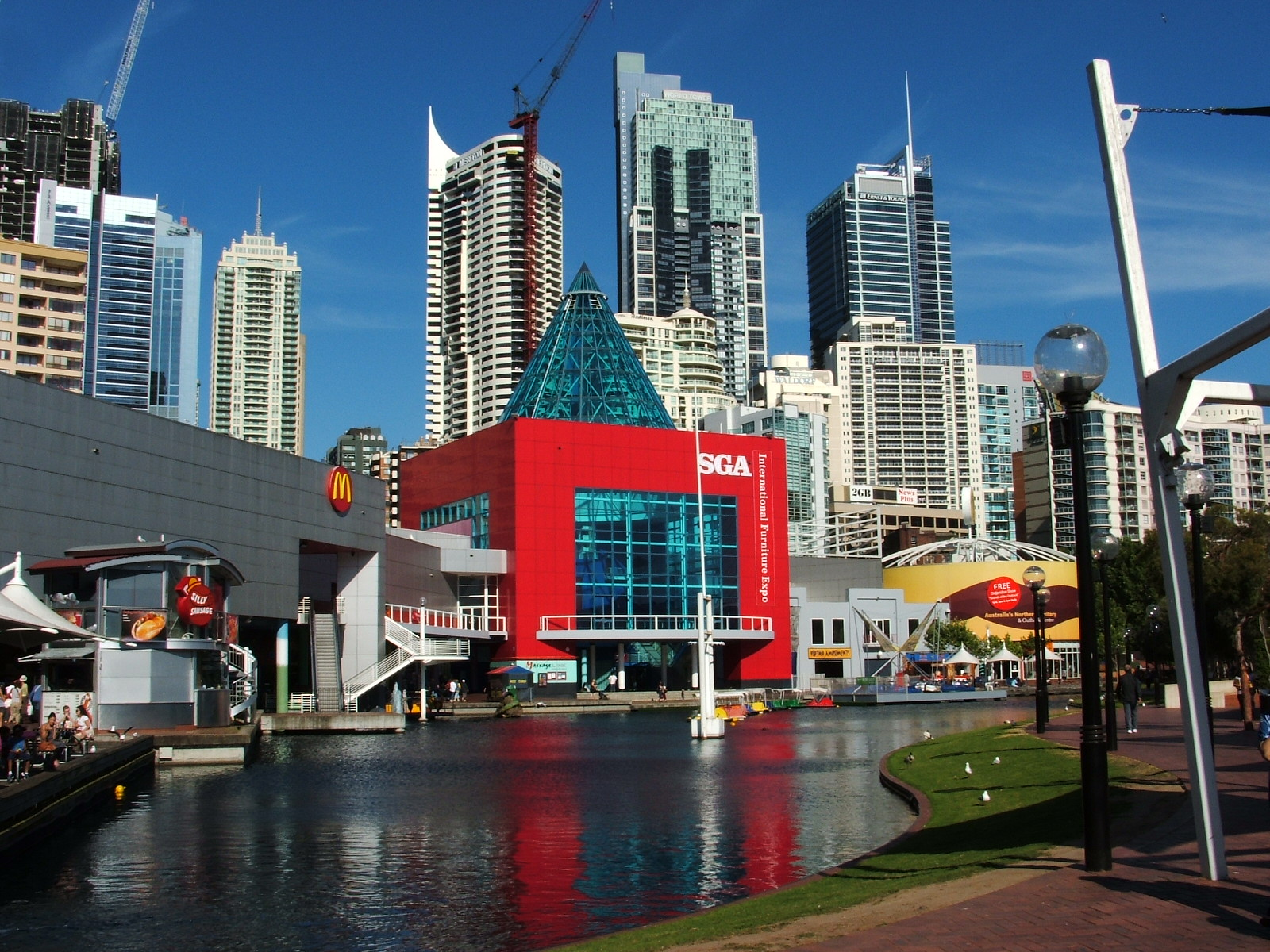 Photograph of the old Sega World Sydney building at Darling Harbour, Australia.